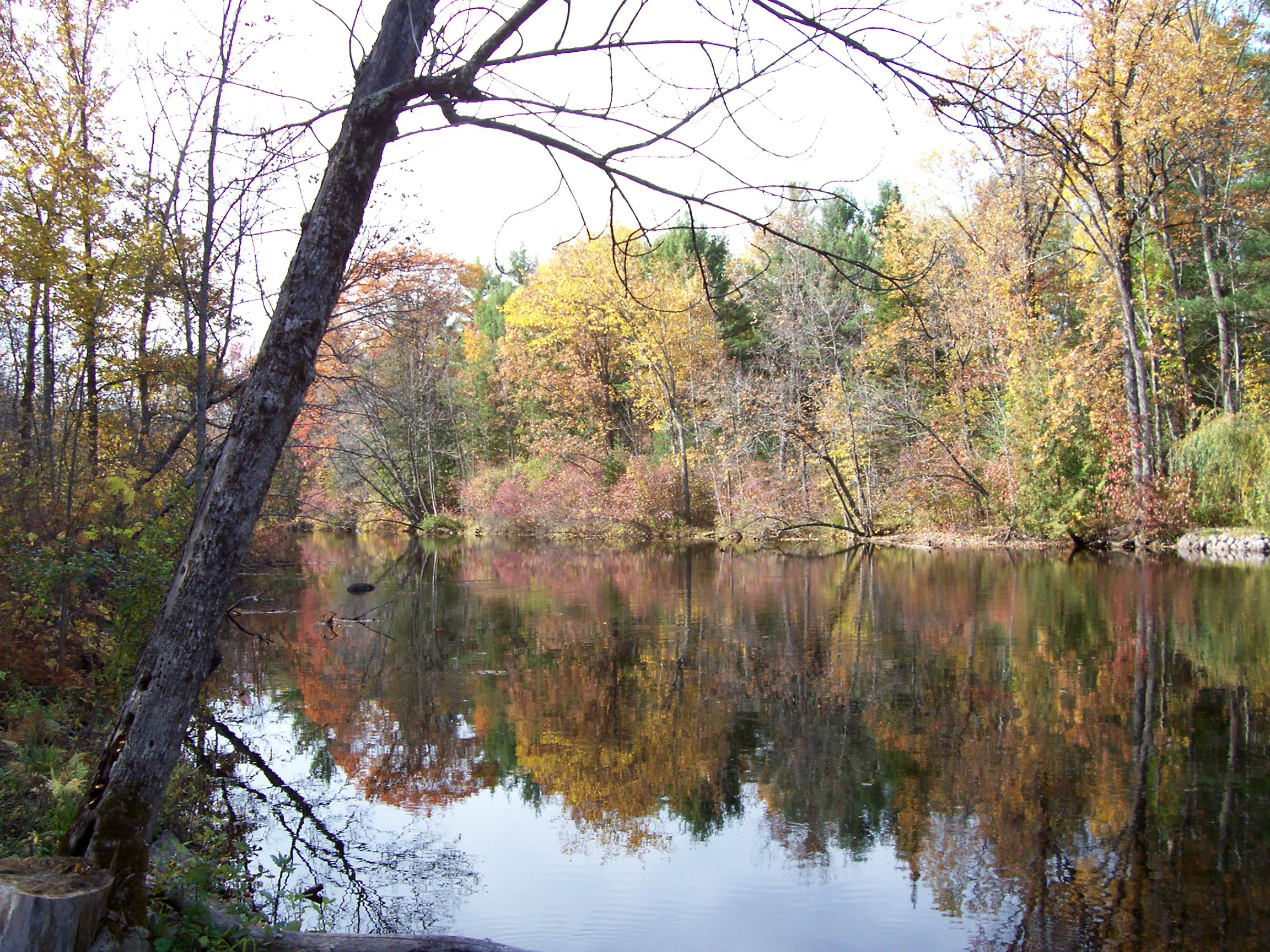 The Oconto River just west (upstream) of Highway 32 (Wisconsin) near Mountain, Wisconsin, United States. This image was taken October 6, 2006 by User:Royalbroil (image date is wrong)